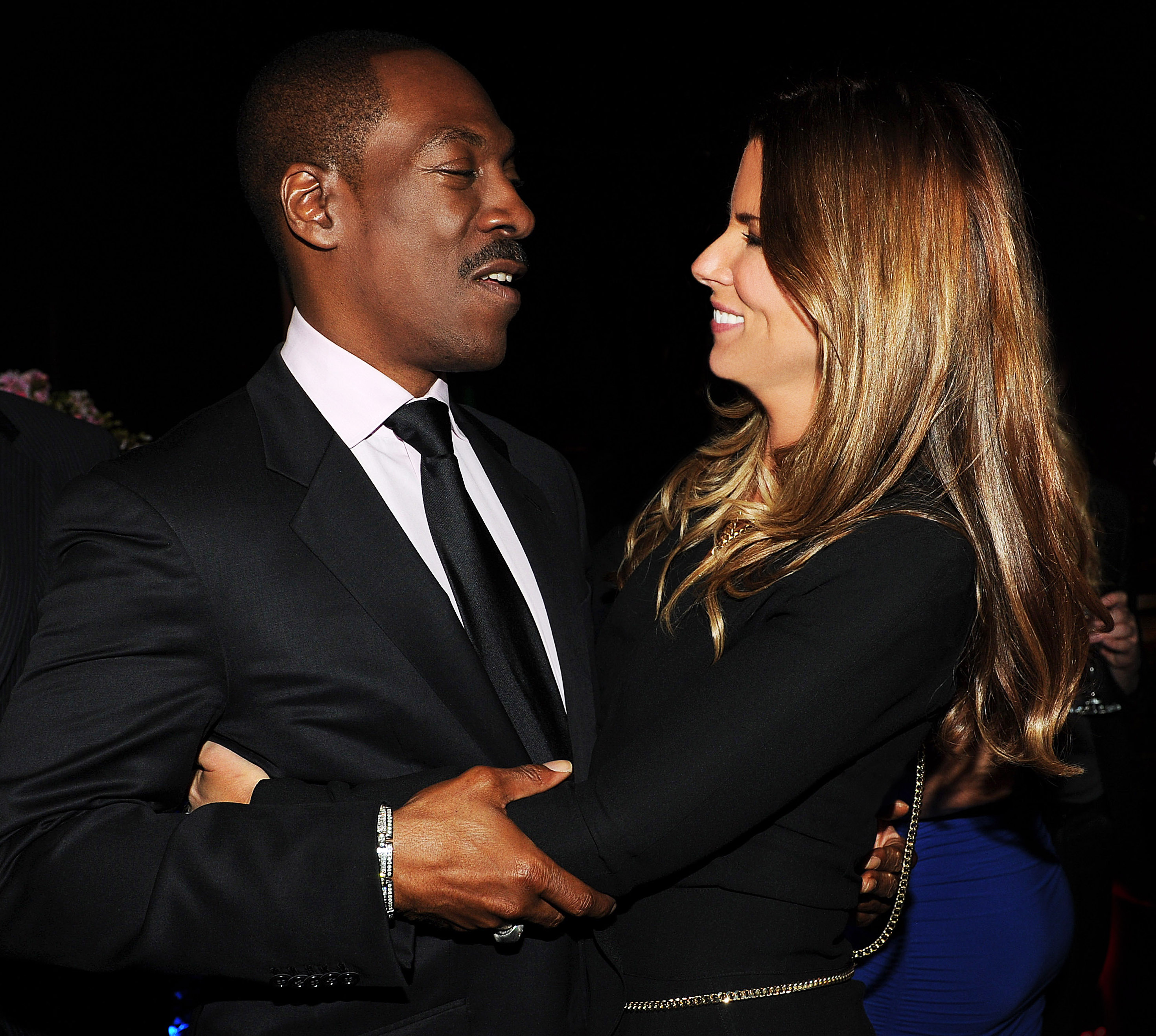 Casey Patterson and Eddie Murphy